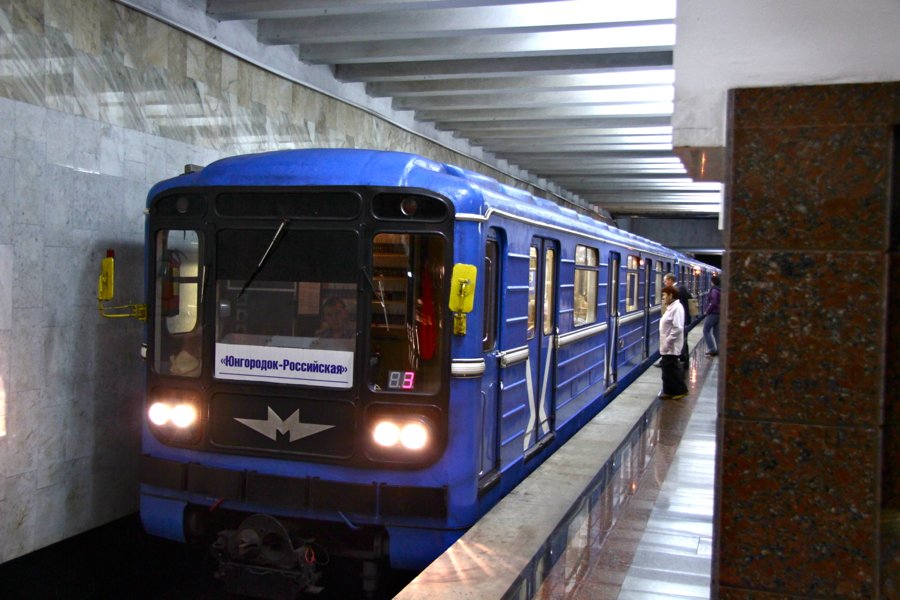 Moskovskaya (Samara Metro).